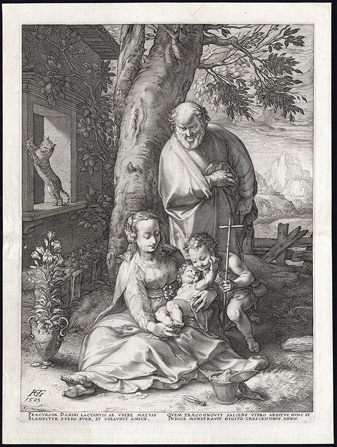 The Holy family and Saint John Baptist (sheet : 395 x 525 mm ; image : 350 x 475 mm), part of Hendrik Goltzius' series The Life of the Virgin (6/6)